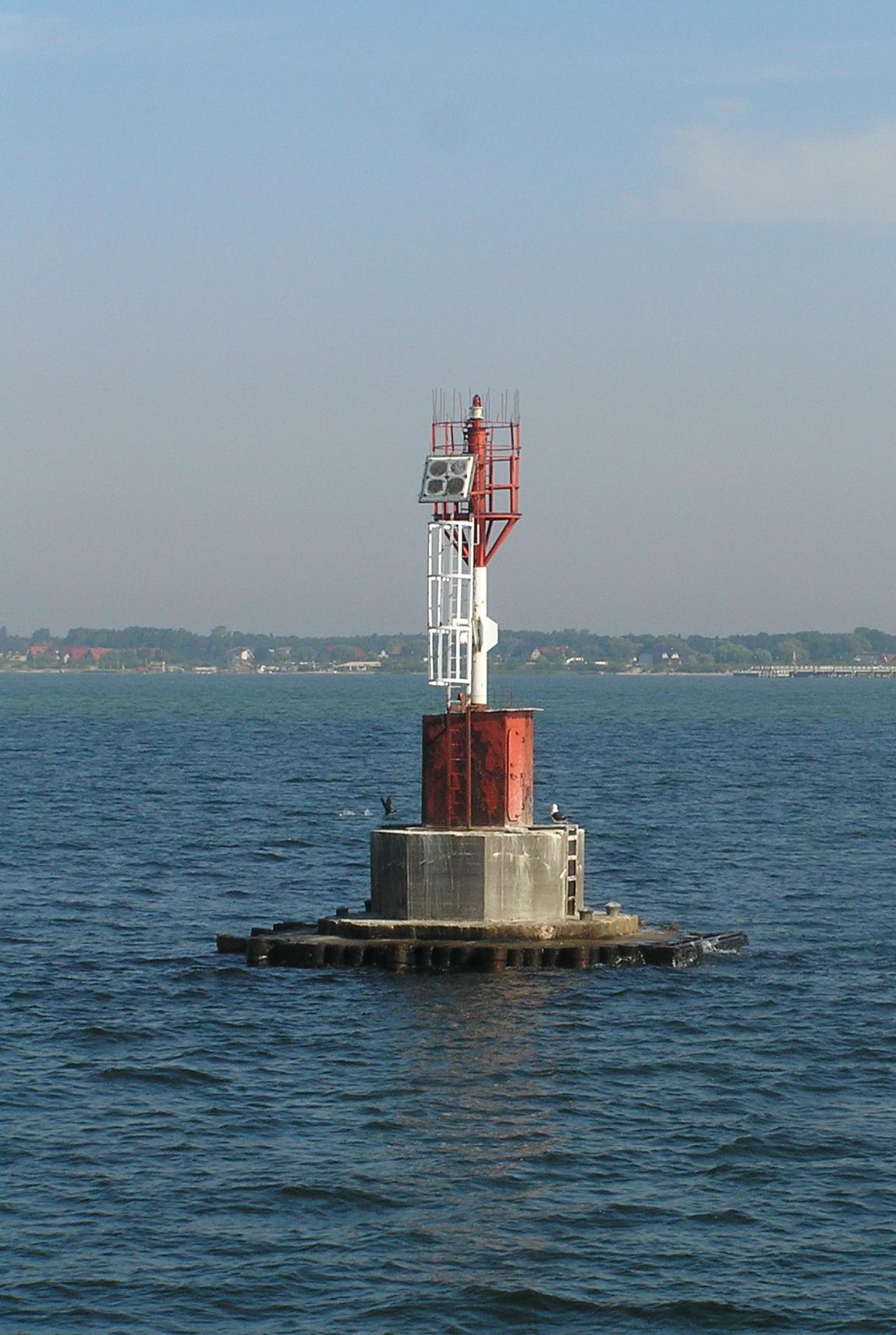 Beacon "Jastarnia" on the Bay of Puck.